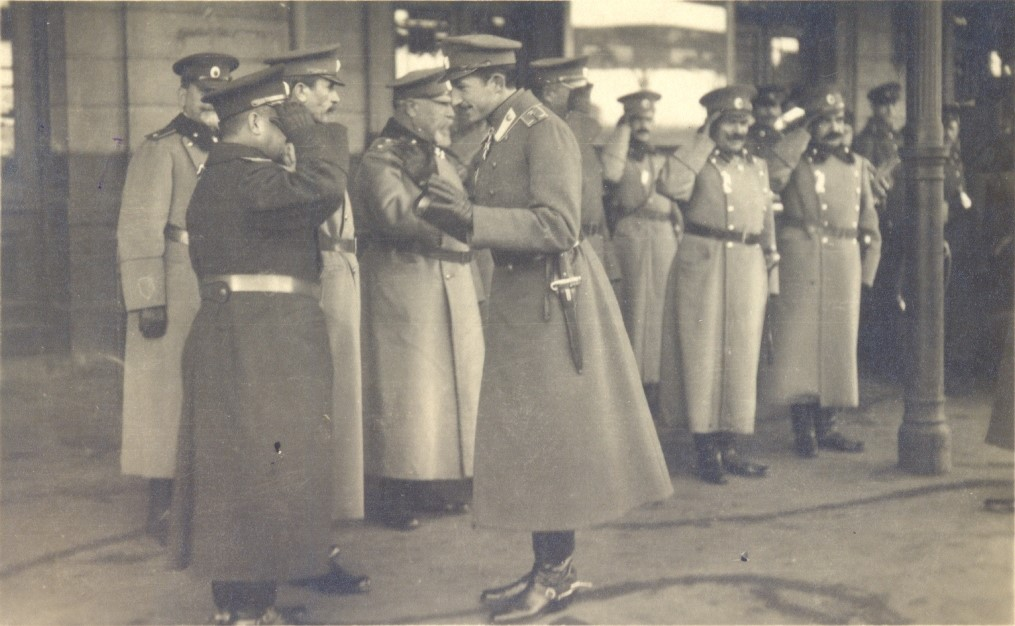 Boris III of Bulgaria and Bulgarian General's Nikola Zhekov, Hristo Lukov and Georgi Todorov 1918.